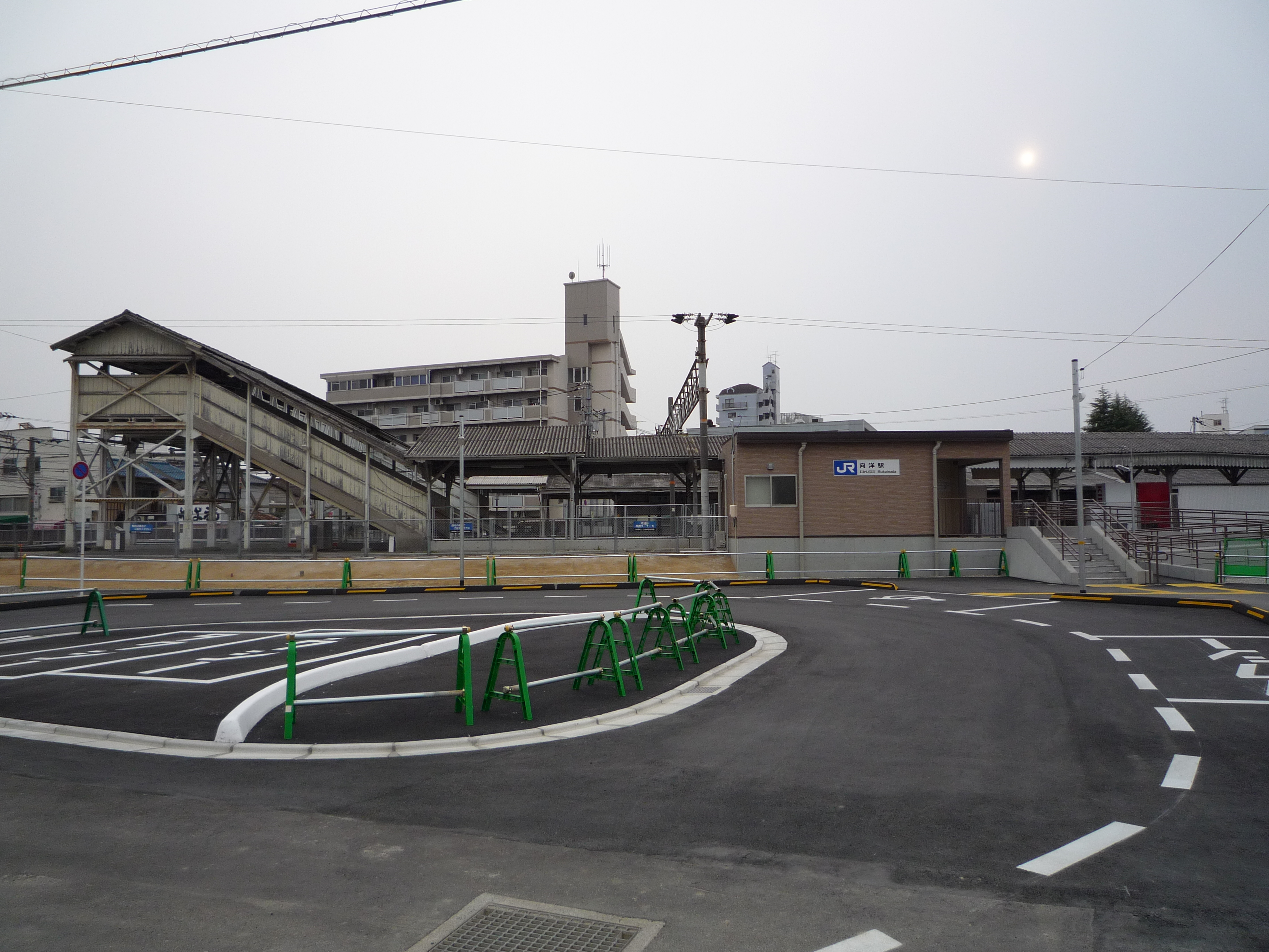 Mukainada Station north side